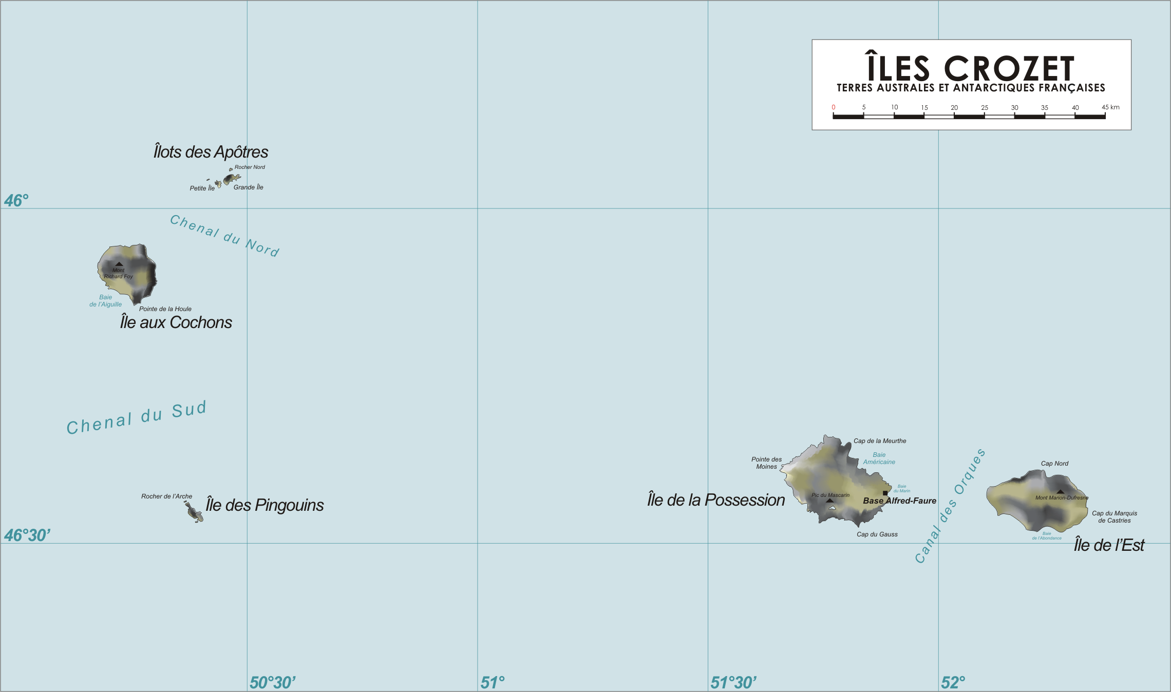 Map of the Crozet Islands, French Southern and Antarctic Territories drawn by varp